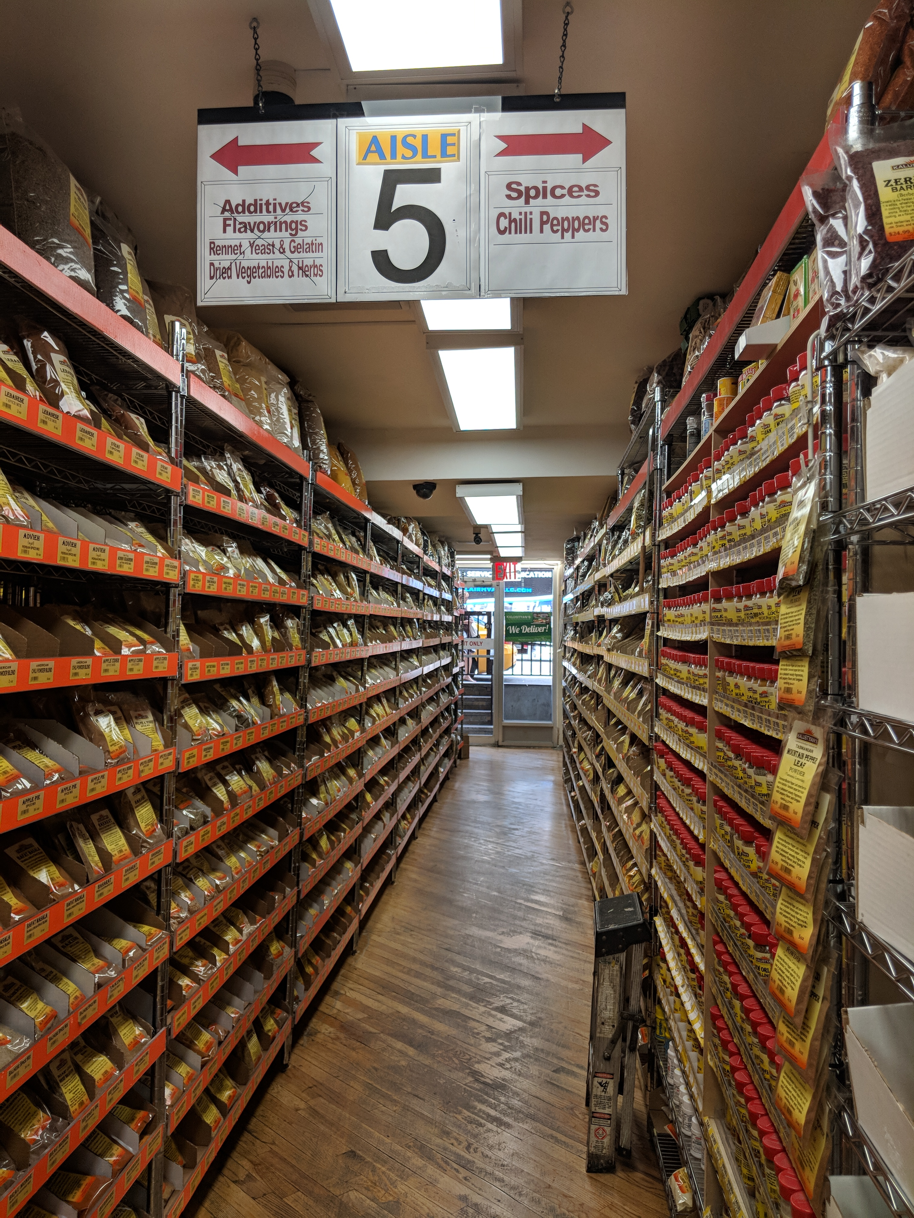 One of the shelves in Kalustyan's.